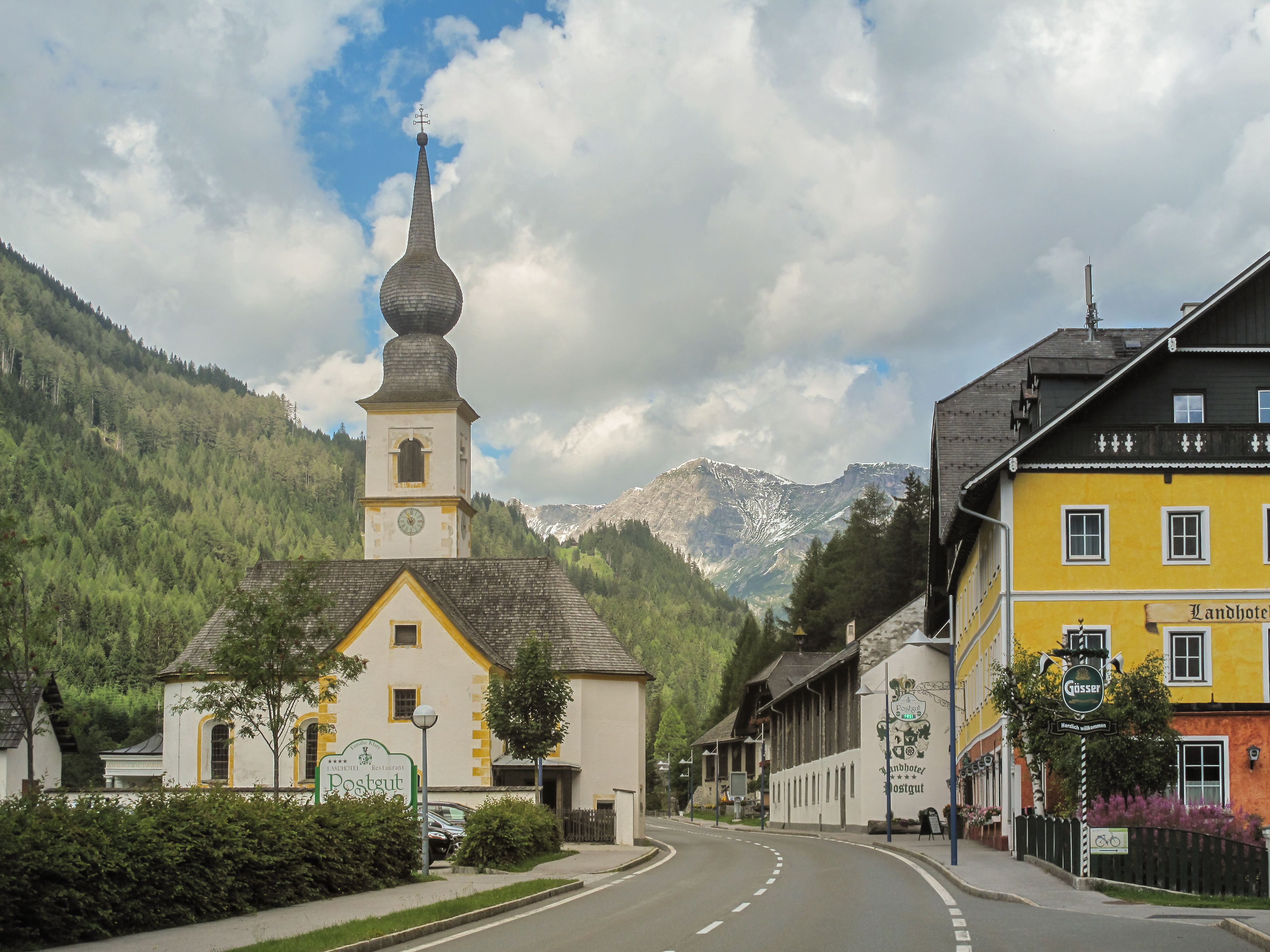 Tweng, church in the street